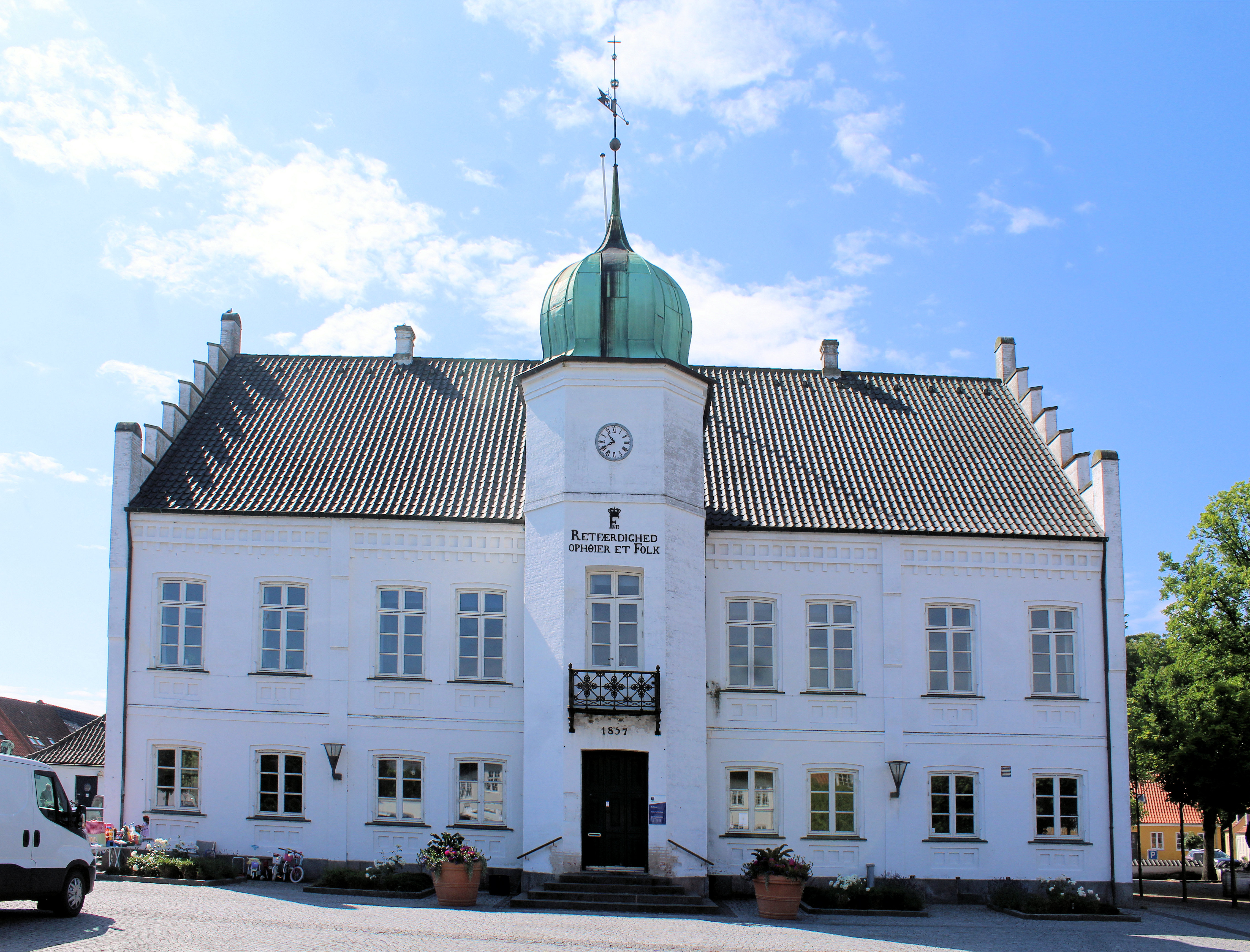 Maribo, the town hall